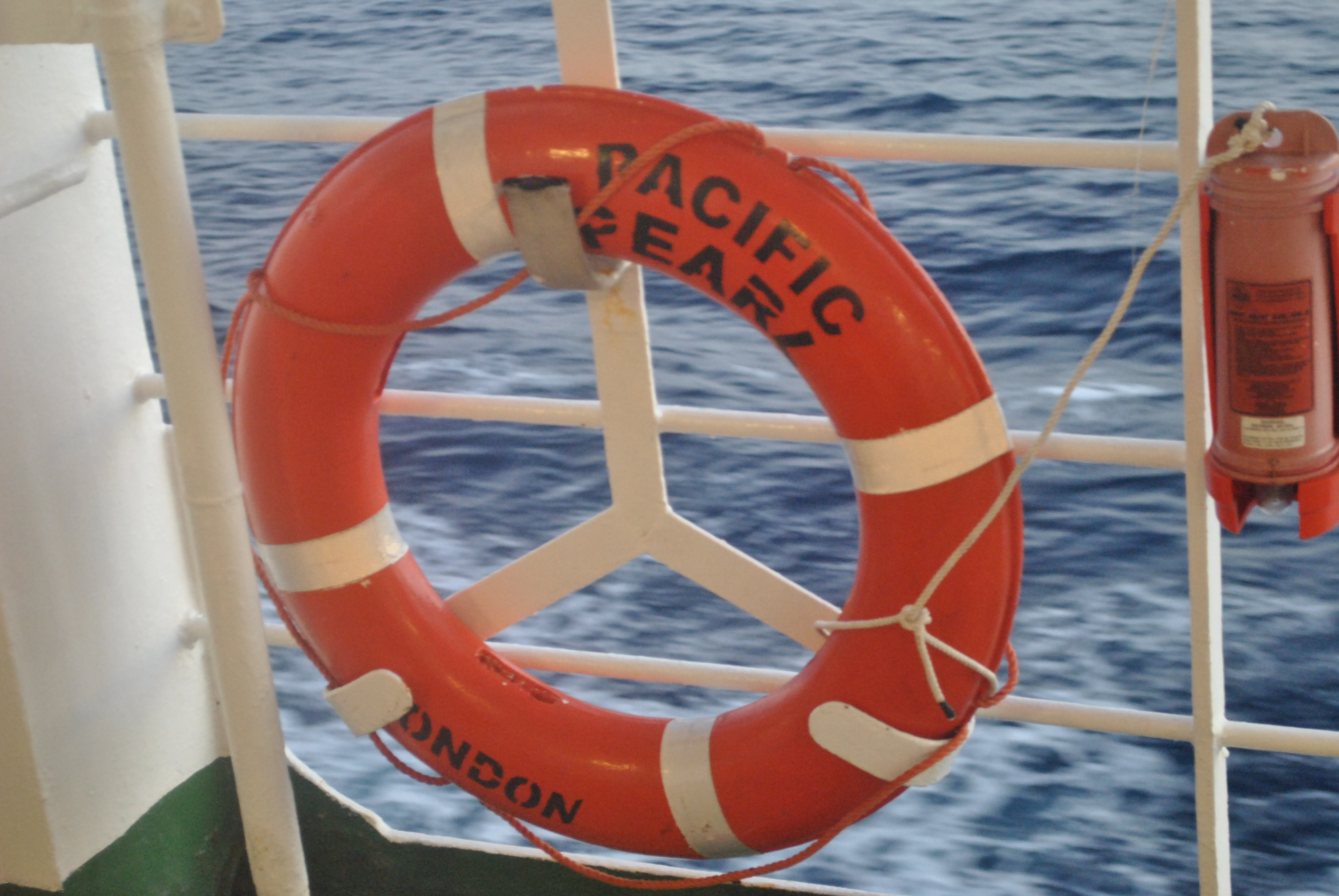 Lifebuoy aboard the Pacific Pearl in 2011